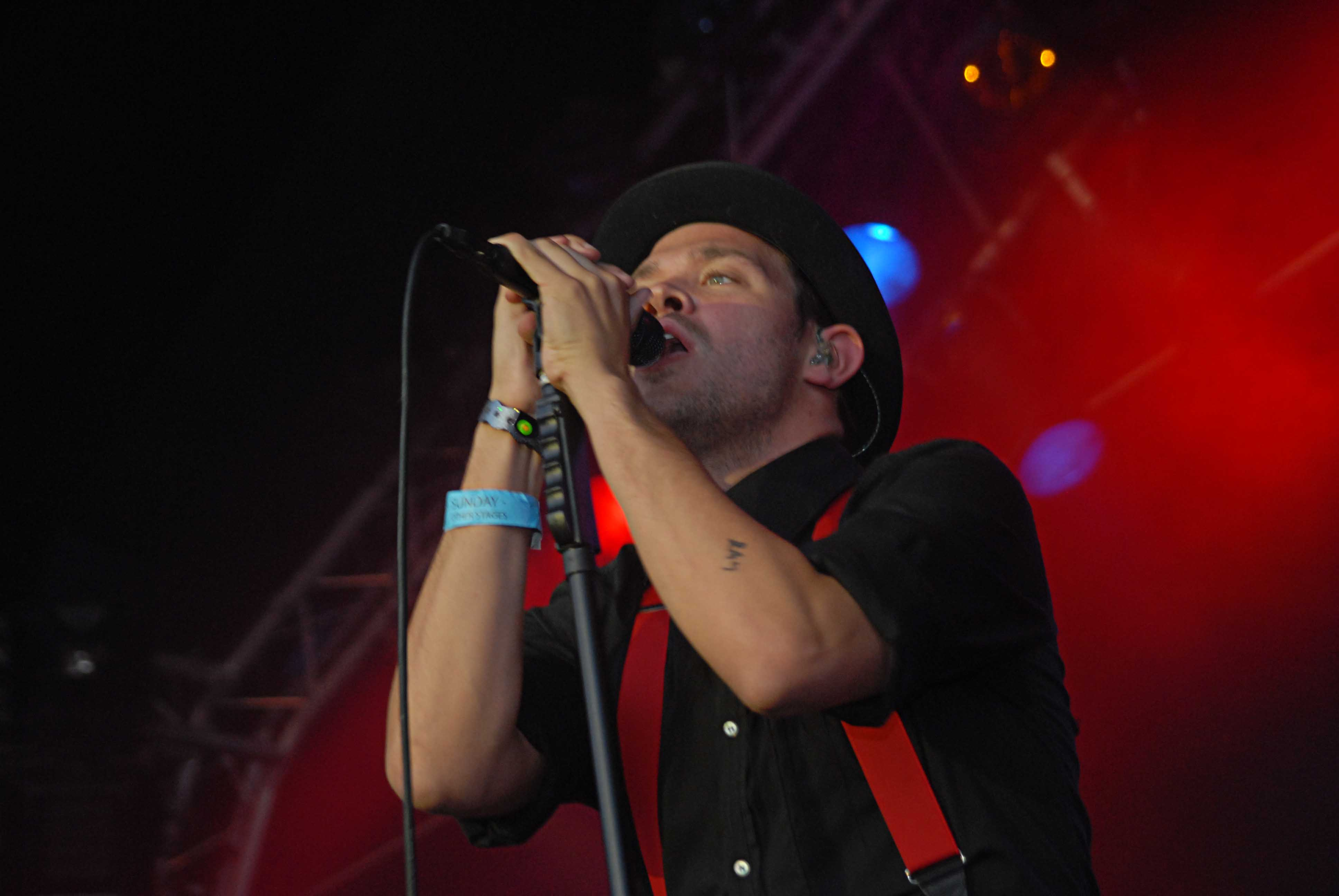 Will Young attending Guilfest on Ents24 stage.